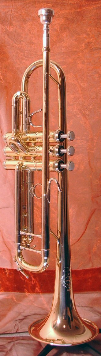 B&S Challenger II 3143/2 GLB Trumpet (Jazz/american System)